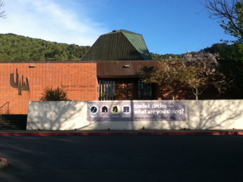 View of Congregation Rodef Sholom, San Rafael, California.